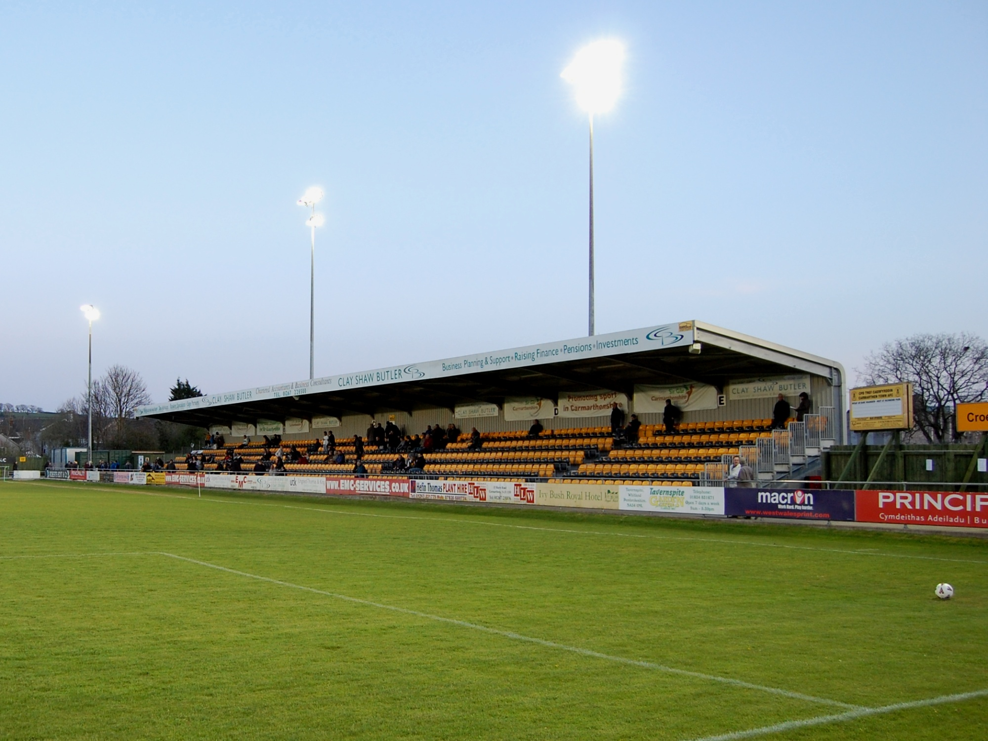 Description: The Clay Shaw Butler Stand at Richmond Park (Parc Waun Dew), Carmarthen, Wales, UK Date:April 20, 2010 Author:Alexander Ridler Permission:cc-by-2.0